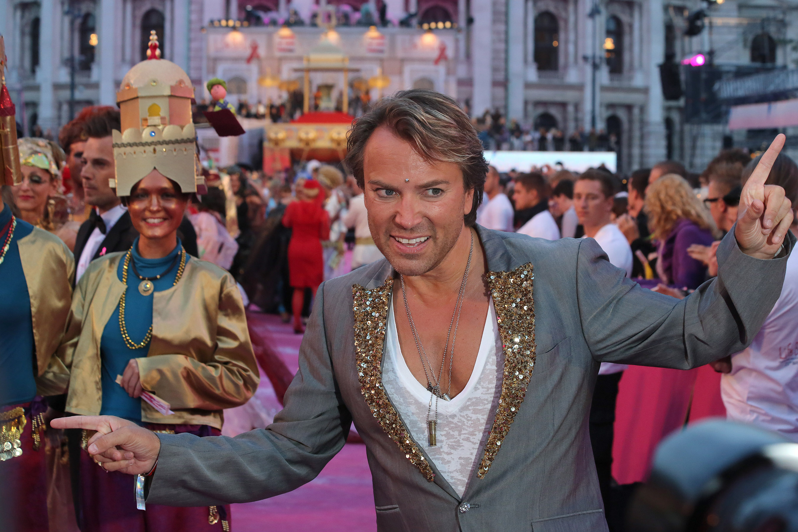 Uwe Kröger on the 'magenta carpet' at Life Ball 2013 at the square in front of the city hall of Vienna, Vienna, Austria.